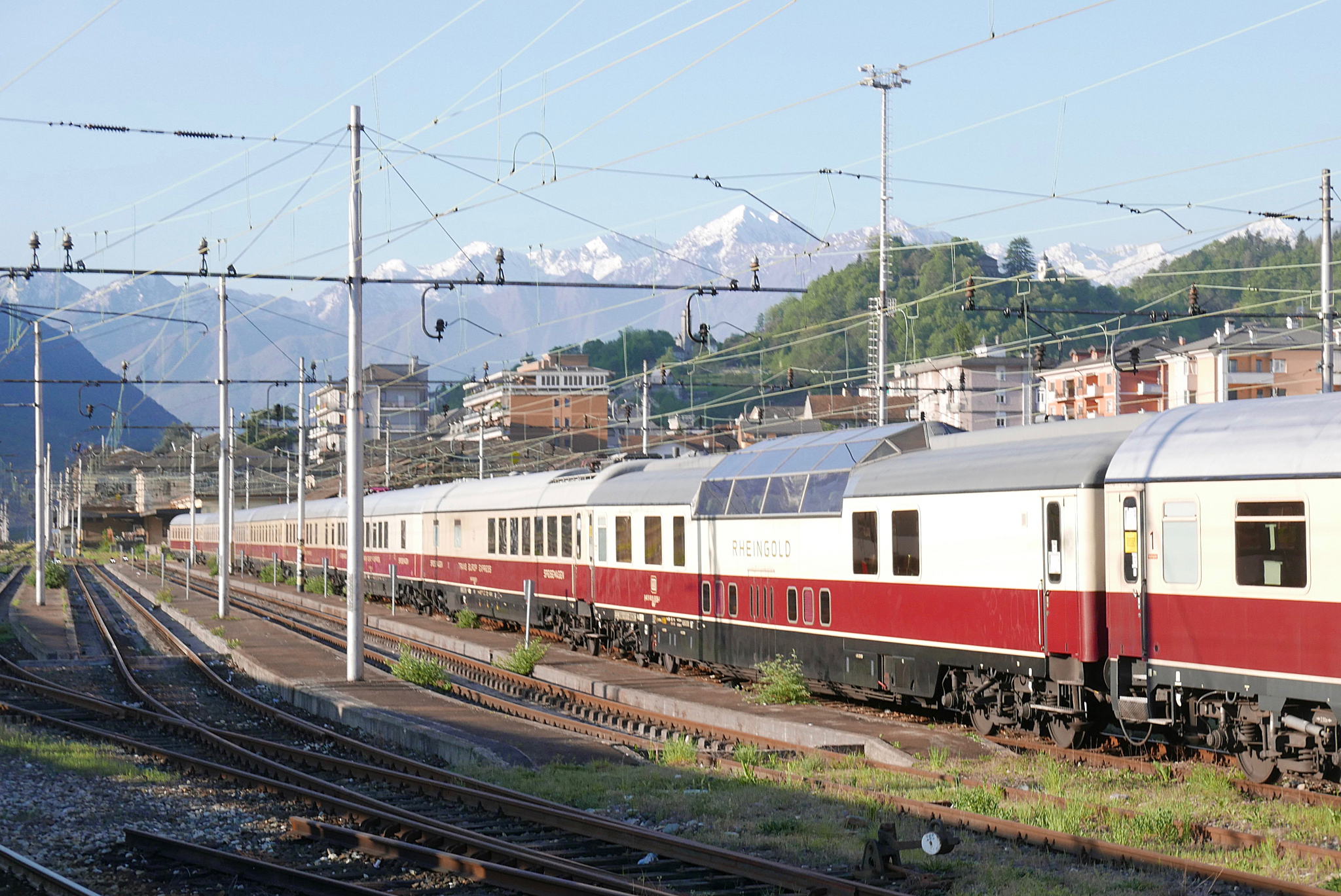 AKE ADmh 56 80 81-90 004-1 D-AKE at Domodossola railway station.